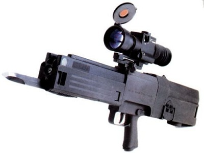 Heckler & Koch G11 ACR with bayonet